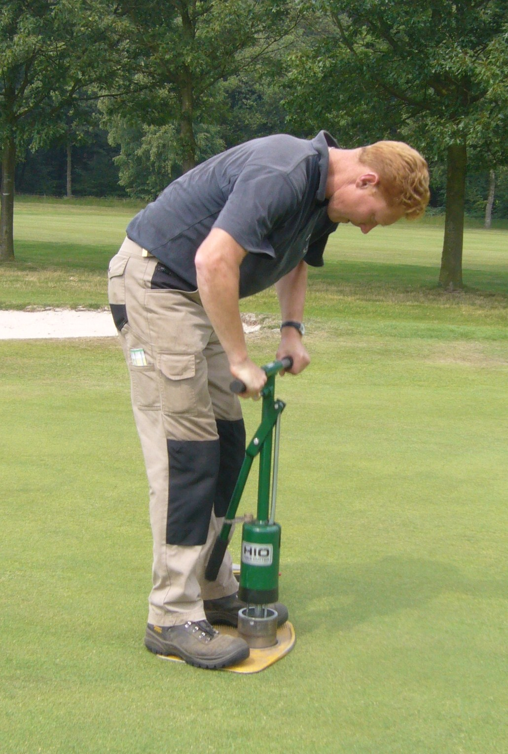 Greenkeeper making a new hole